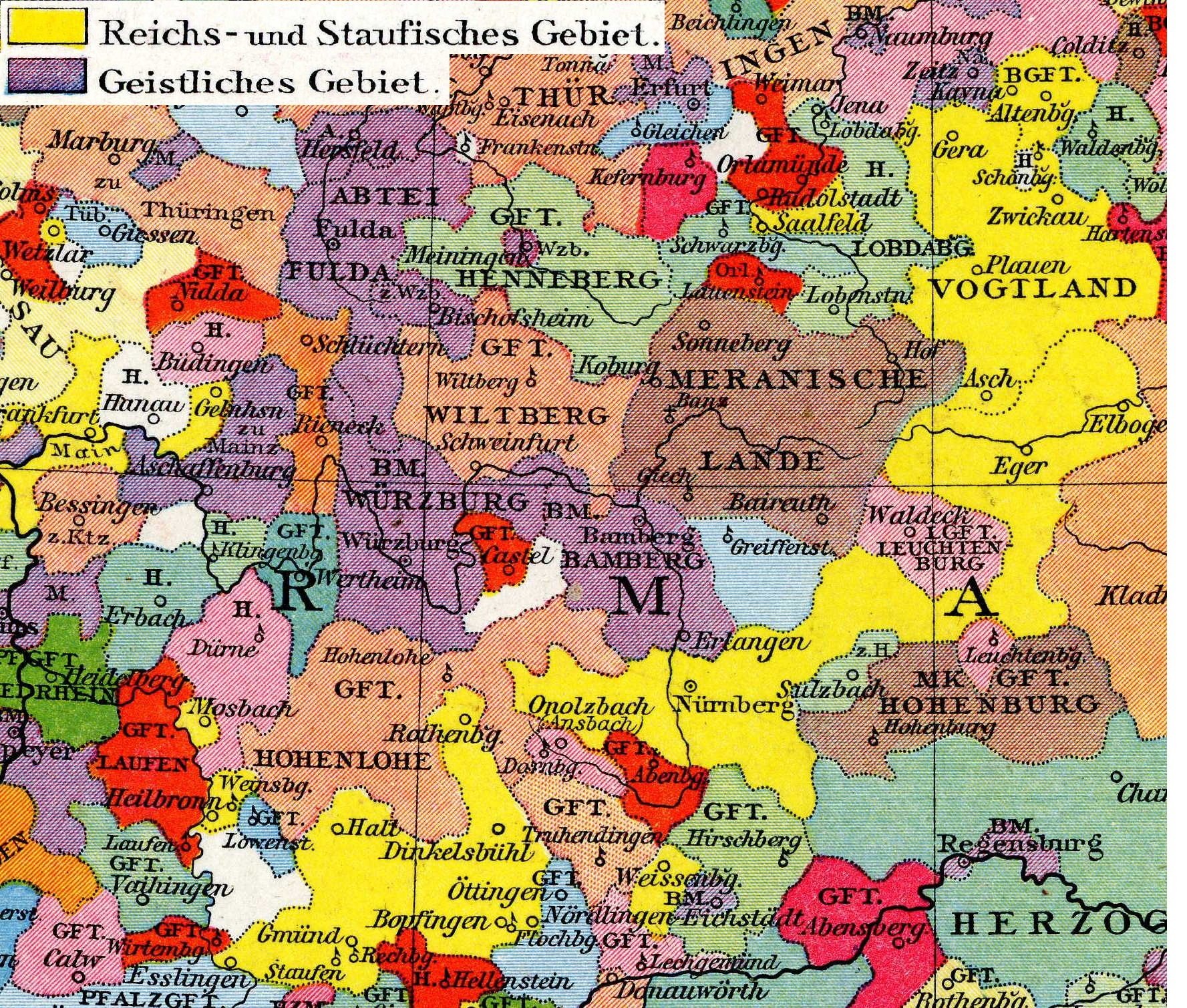 Franconia at ca. 1200-1250 (The Age of the Staufer)